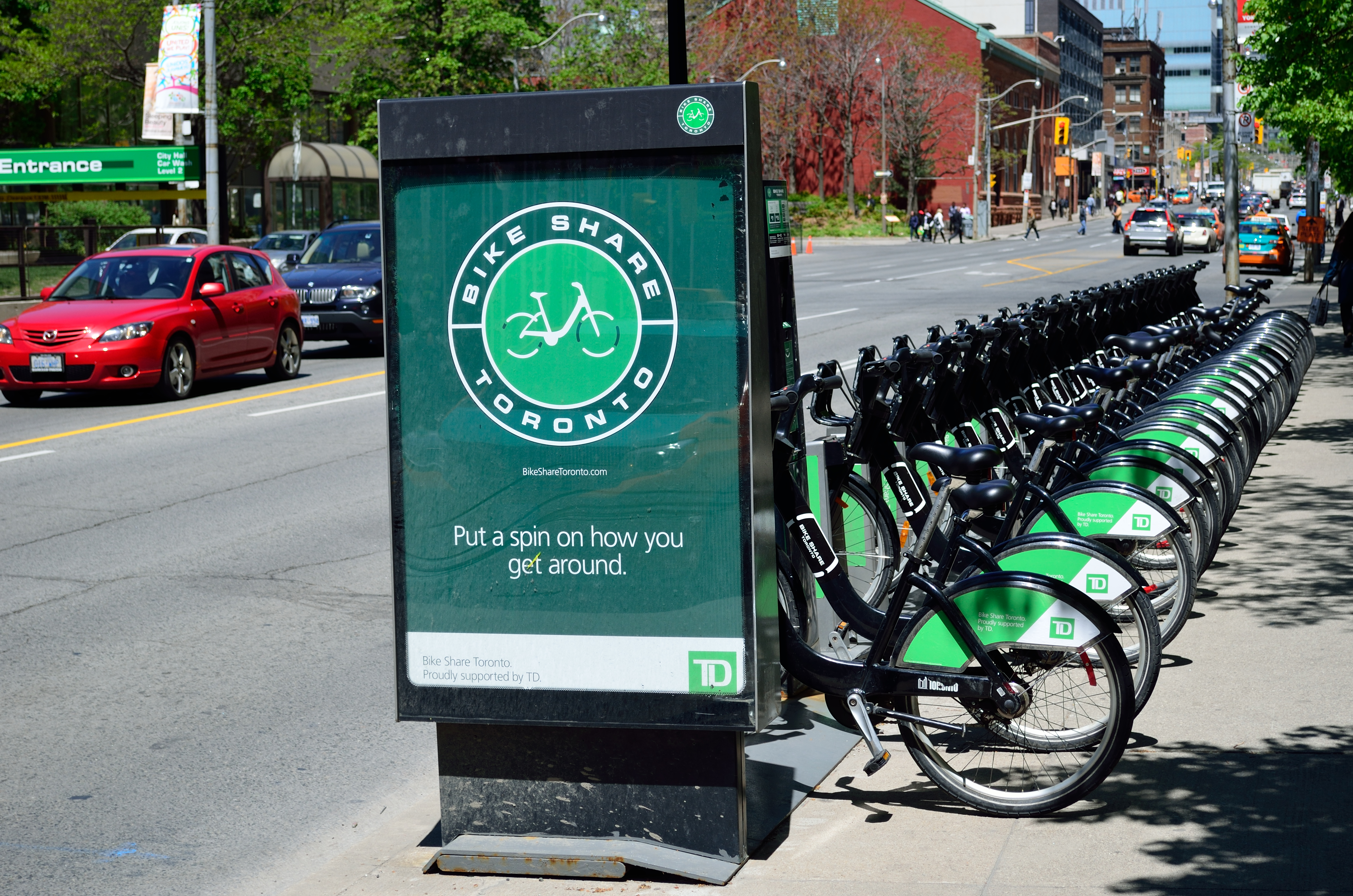 Bike Share Toronto - Bay and Albert Street